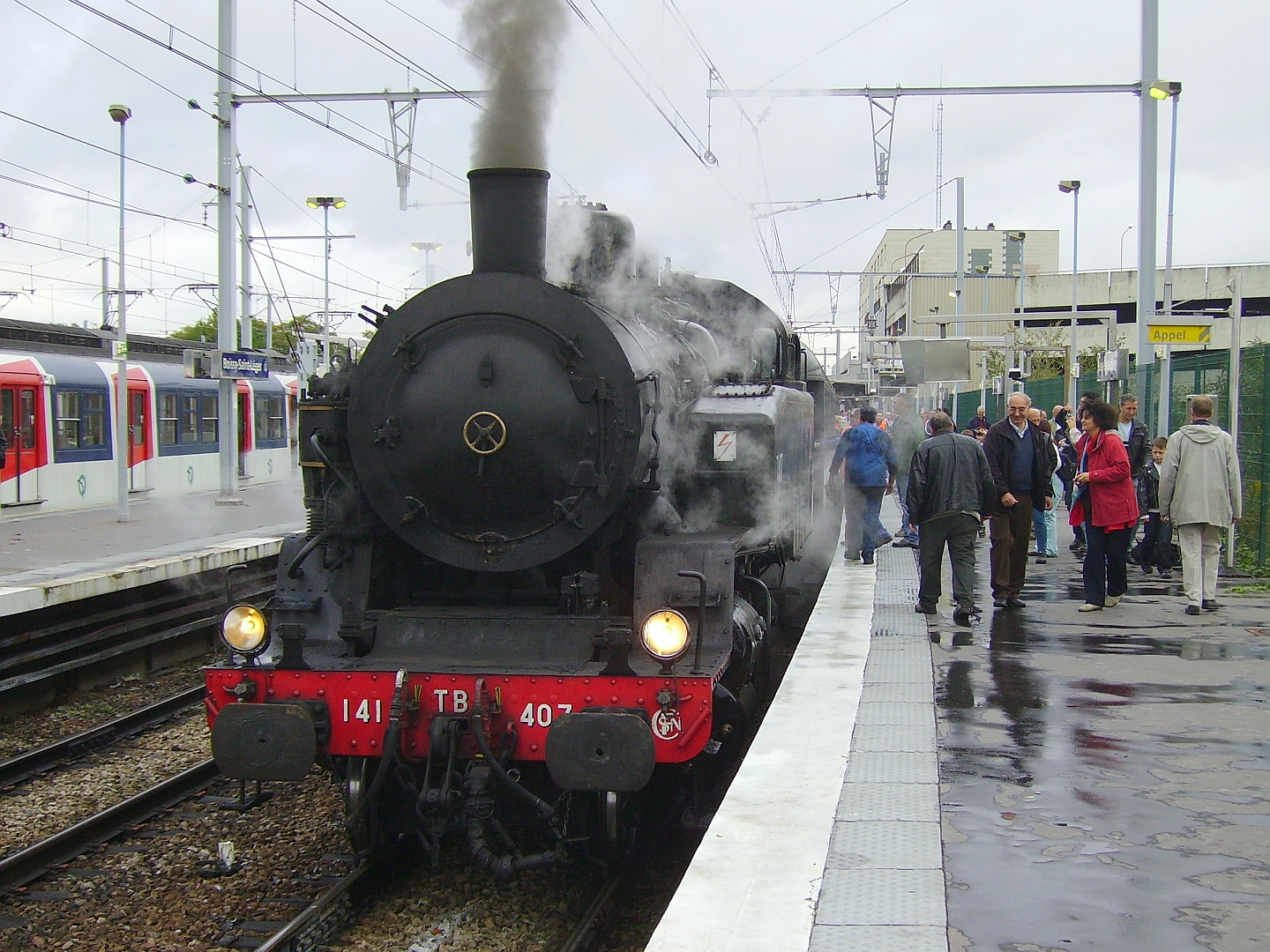 The 141 TB 407 steam locomotive, on RER A suburban RATP tracks at Boissy-Saint-Léger station on October 10, 2009.